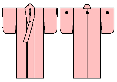 Stylized Kimono with three Kamons, which is less formal than Kimono with five Kamons.